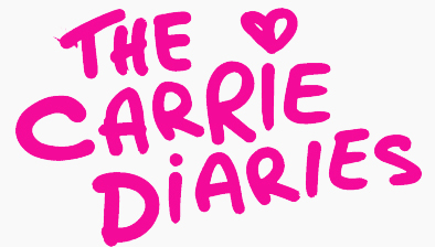 Logo for the TV series The Carrie Diaries